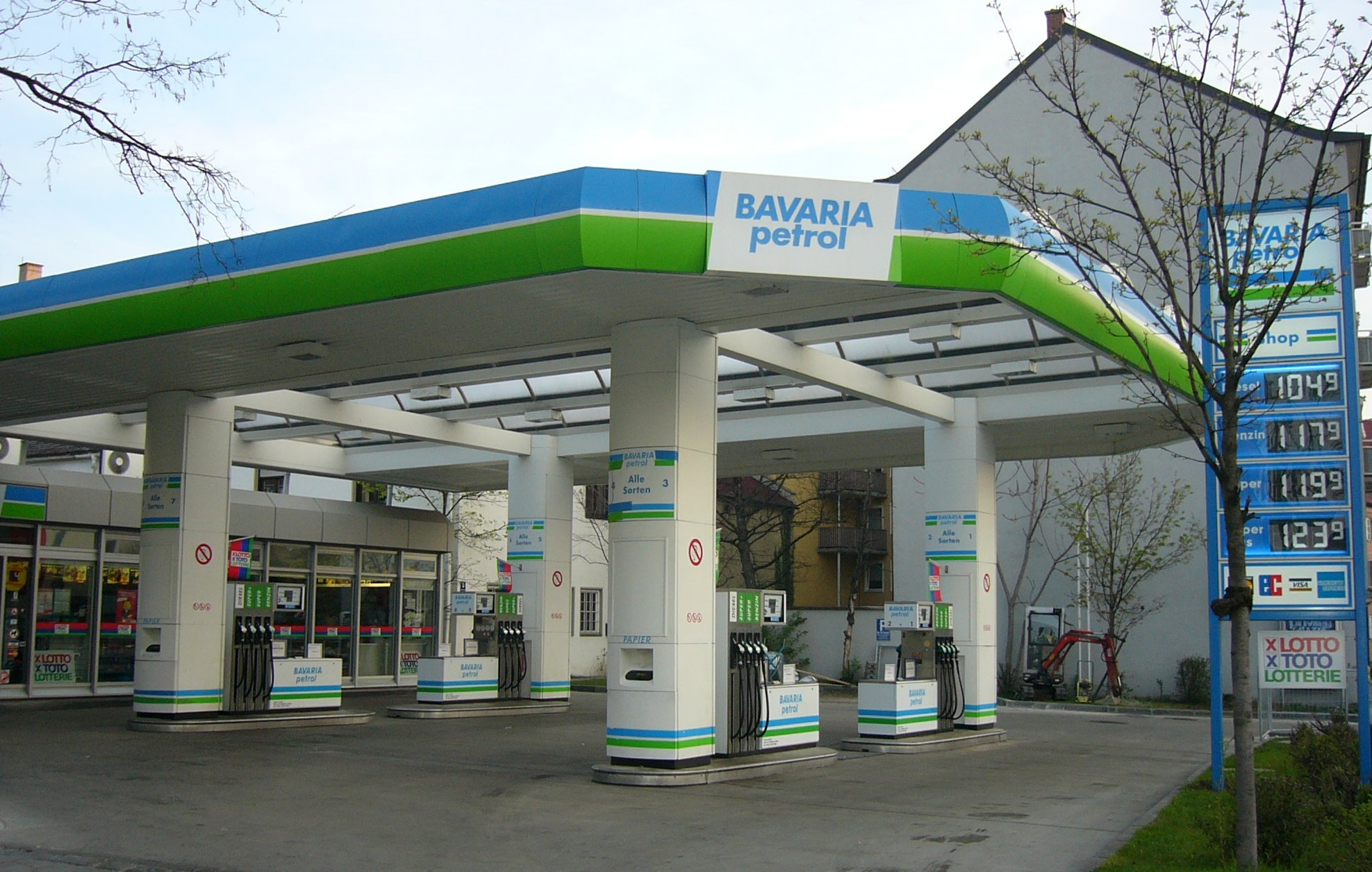 "Bavaria Petrol"A gas/petrol station in München, Germany.